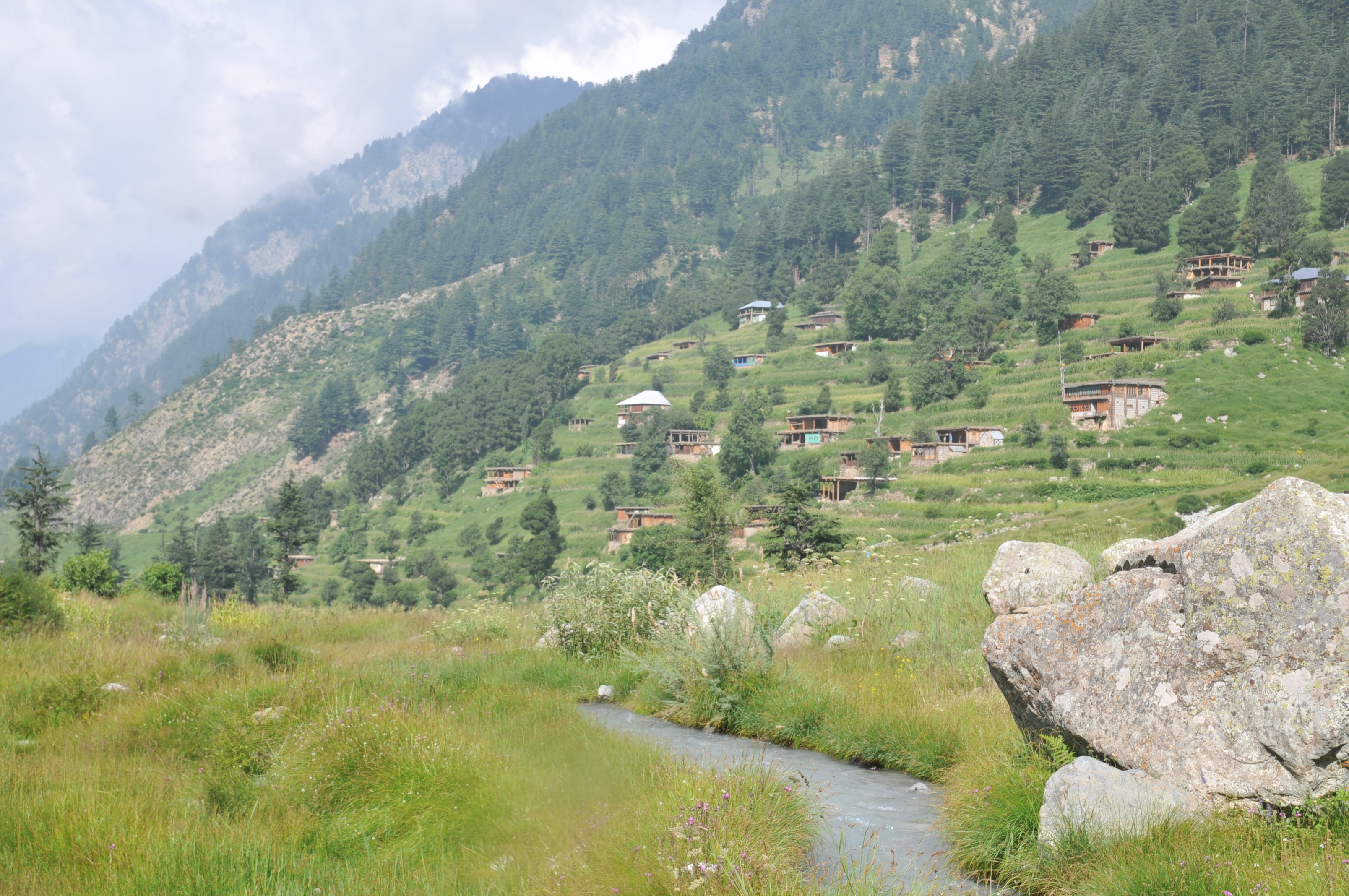 Swat valley paradise 011